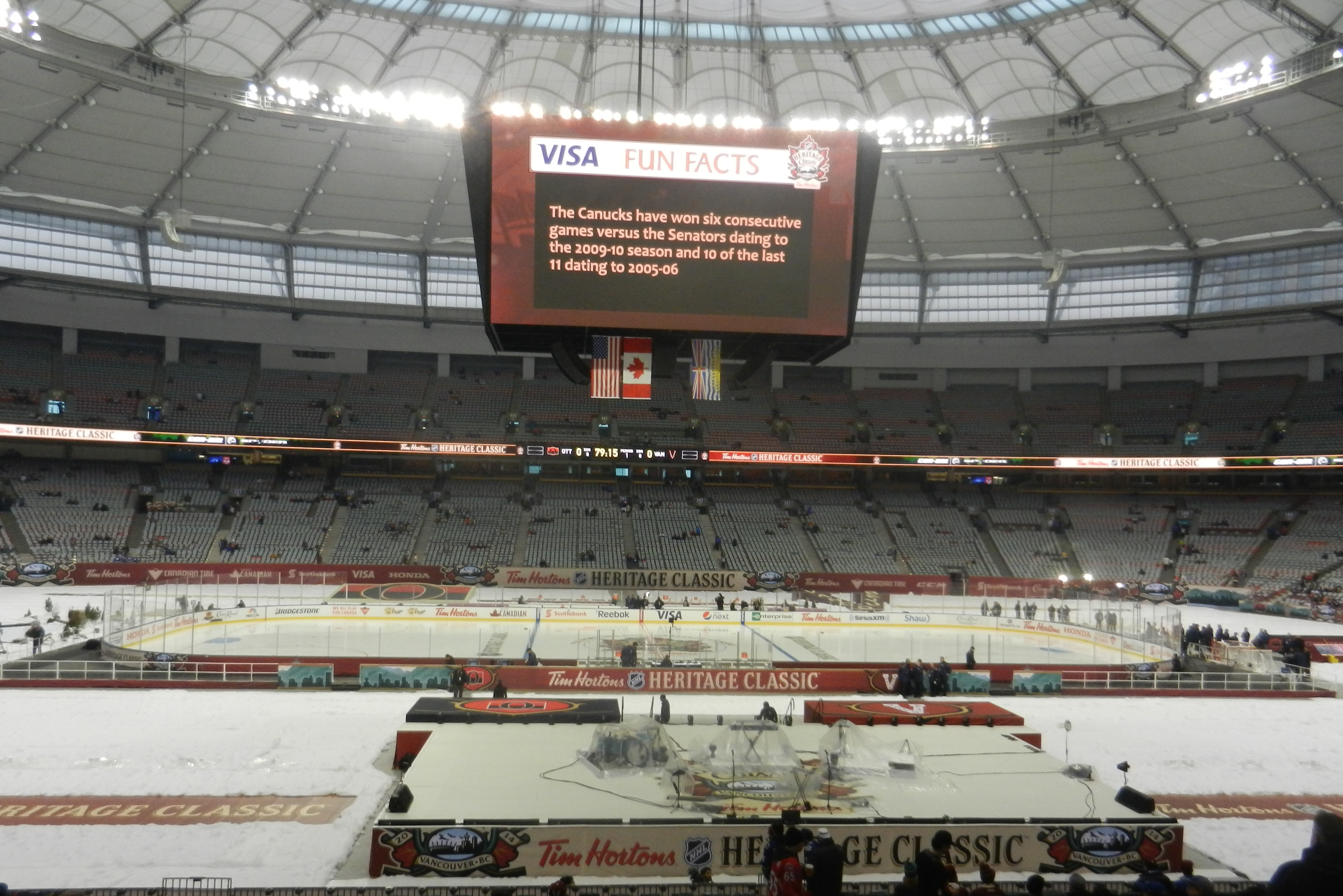 The ice hockey rink inside of BC Place for the 2014 Heritage Classic before pregame warm-up